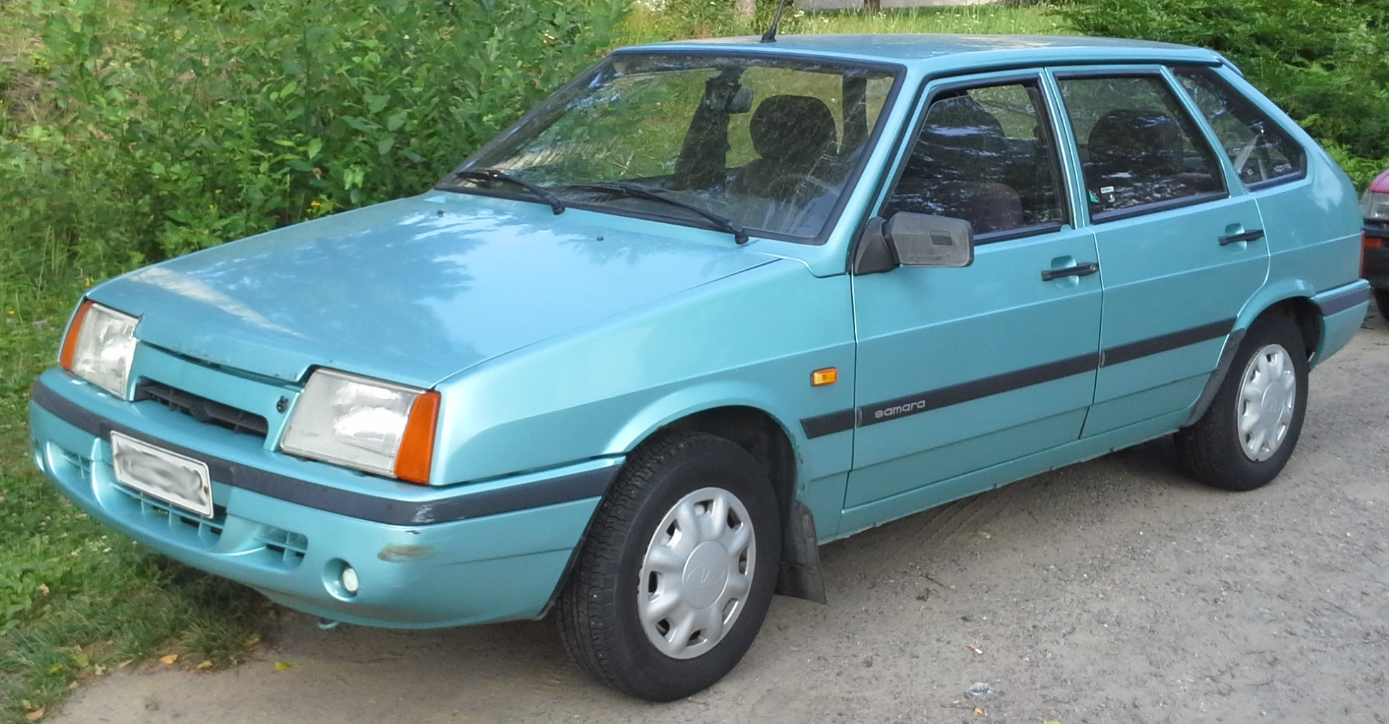 One of the 14,048 Lada Samara Baltics, also known as Eurosamara.